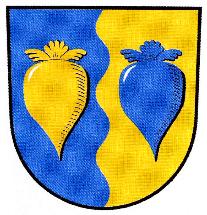 Coat of arms of Söllingen